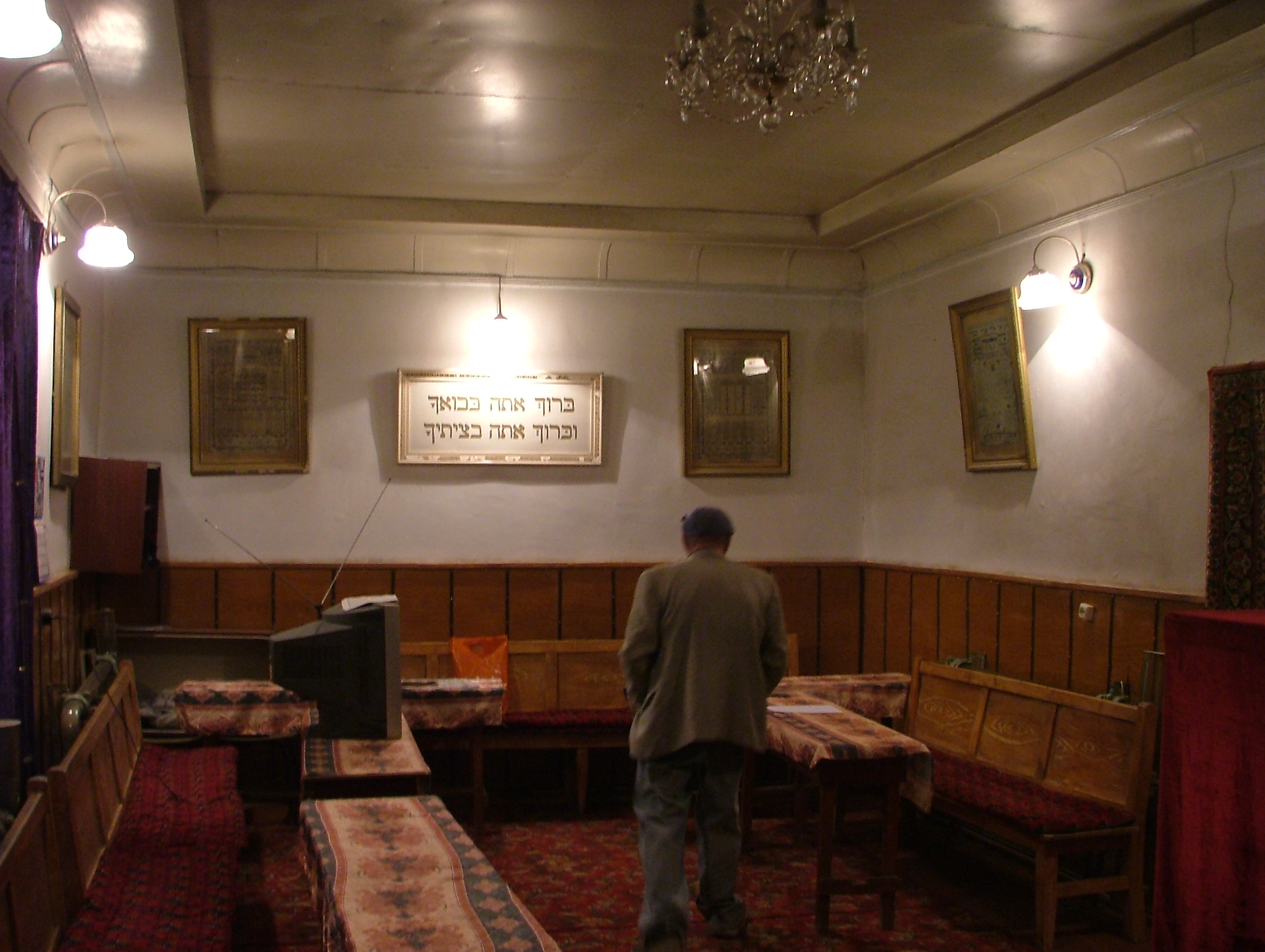 Demolished by the Tajik government in the summer of 2008.